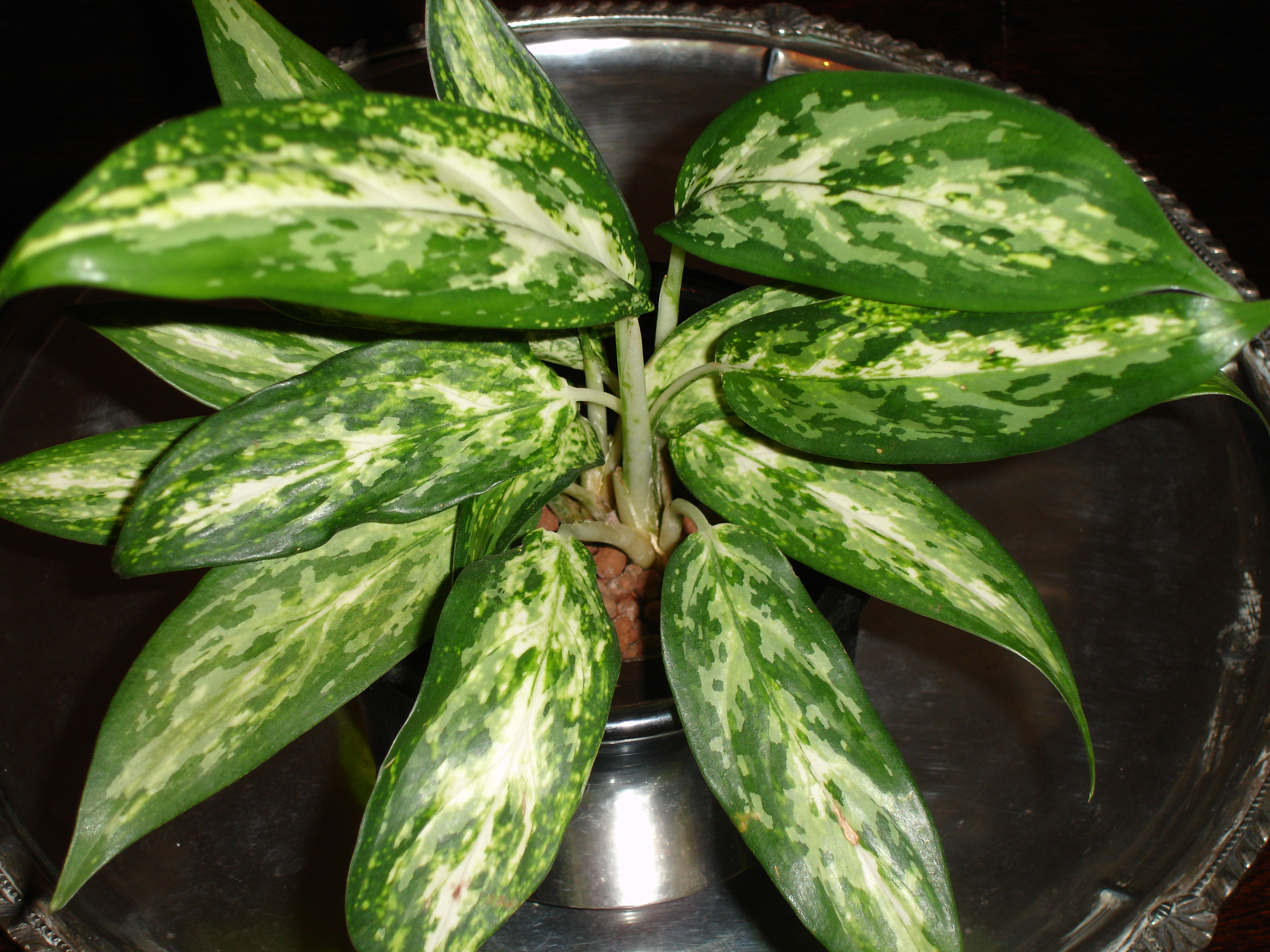 Aglaonema, probably algaonema commutatum, variety